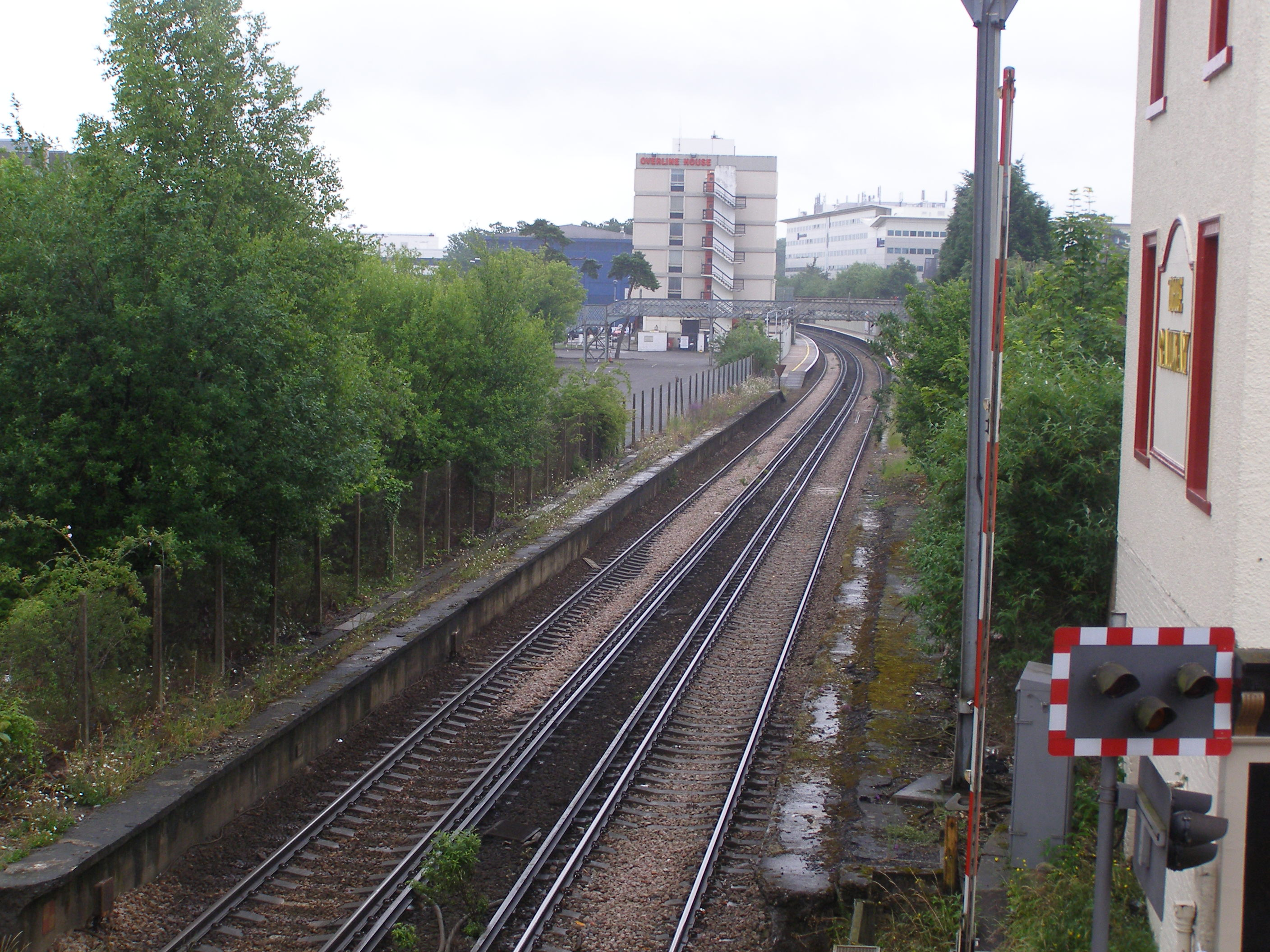 Crawley Railway Station, Crawley, West Sussex, England. Taken from the Signal Box and show the original now unused platforms.